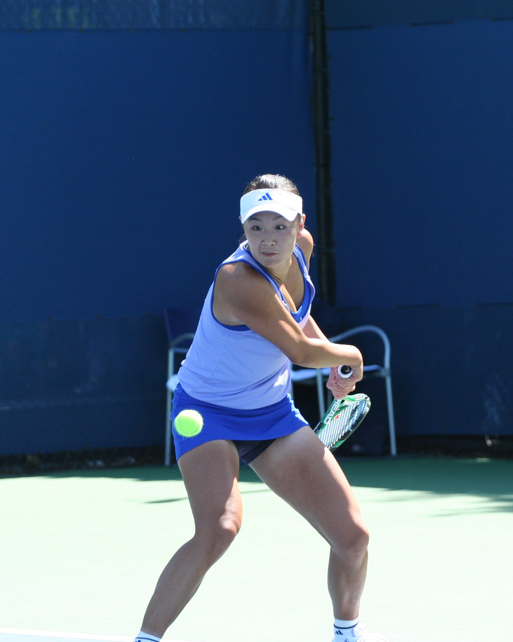 U.S. Open Tuesday, Sept. 1, 2009